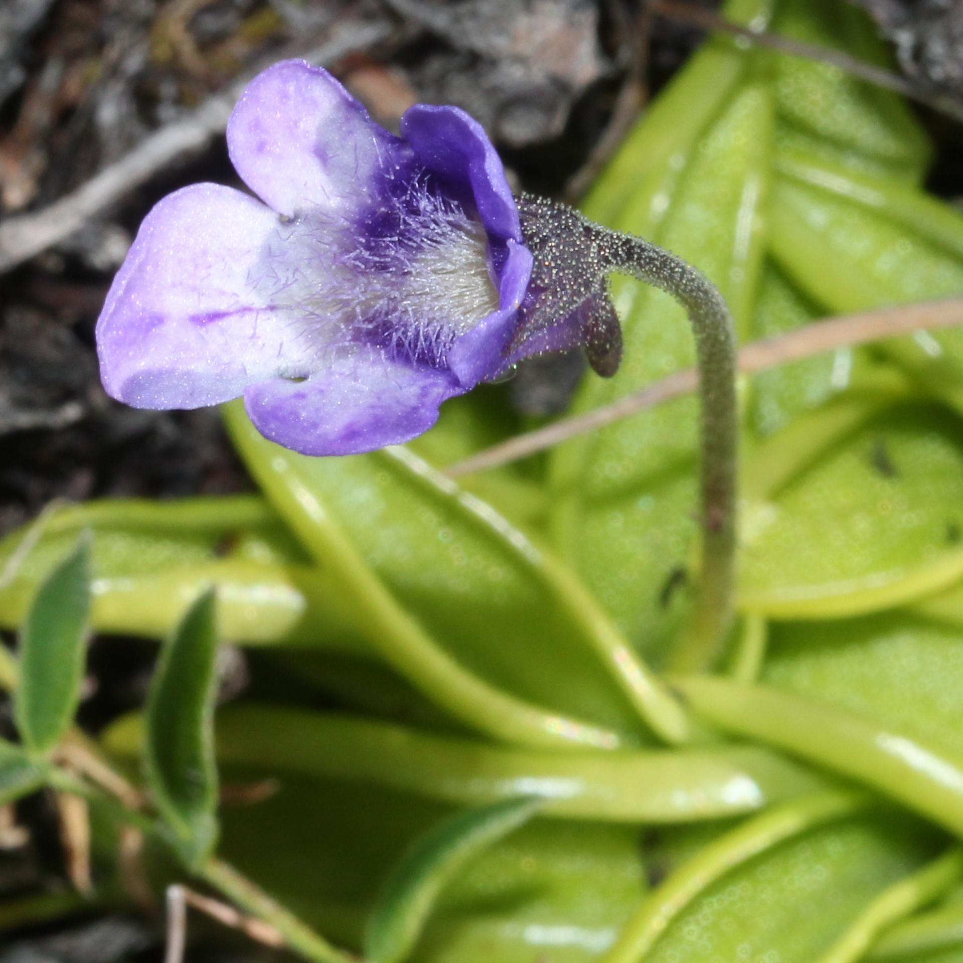 Pinguicula vulgaris var. macroceras in Mount Shirouma, Hakuba, Nagano prefecture, Japan.